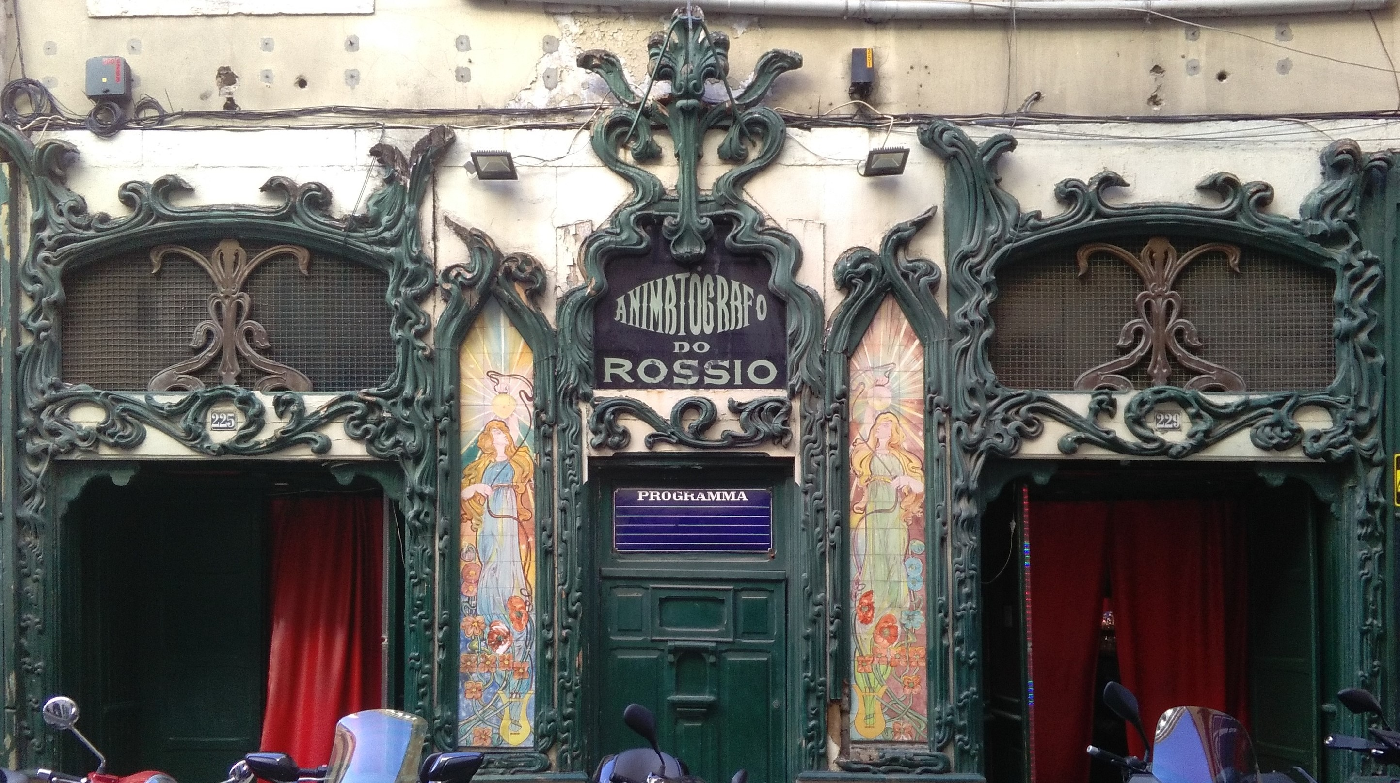 Theatrograph of Rossio in LIsbon, Portugal.